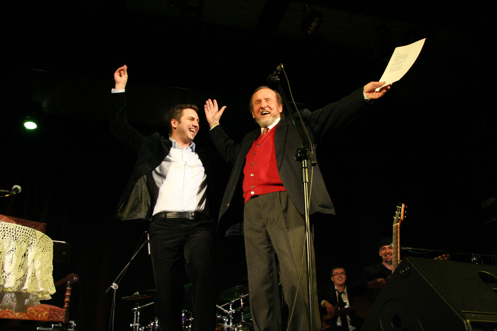 Singer Marcin Styczeń and poet Ernest Bryll performing an encore at a concert celebrating the poet's 74th birthday and the 50th anniversary of his first publication.